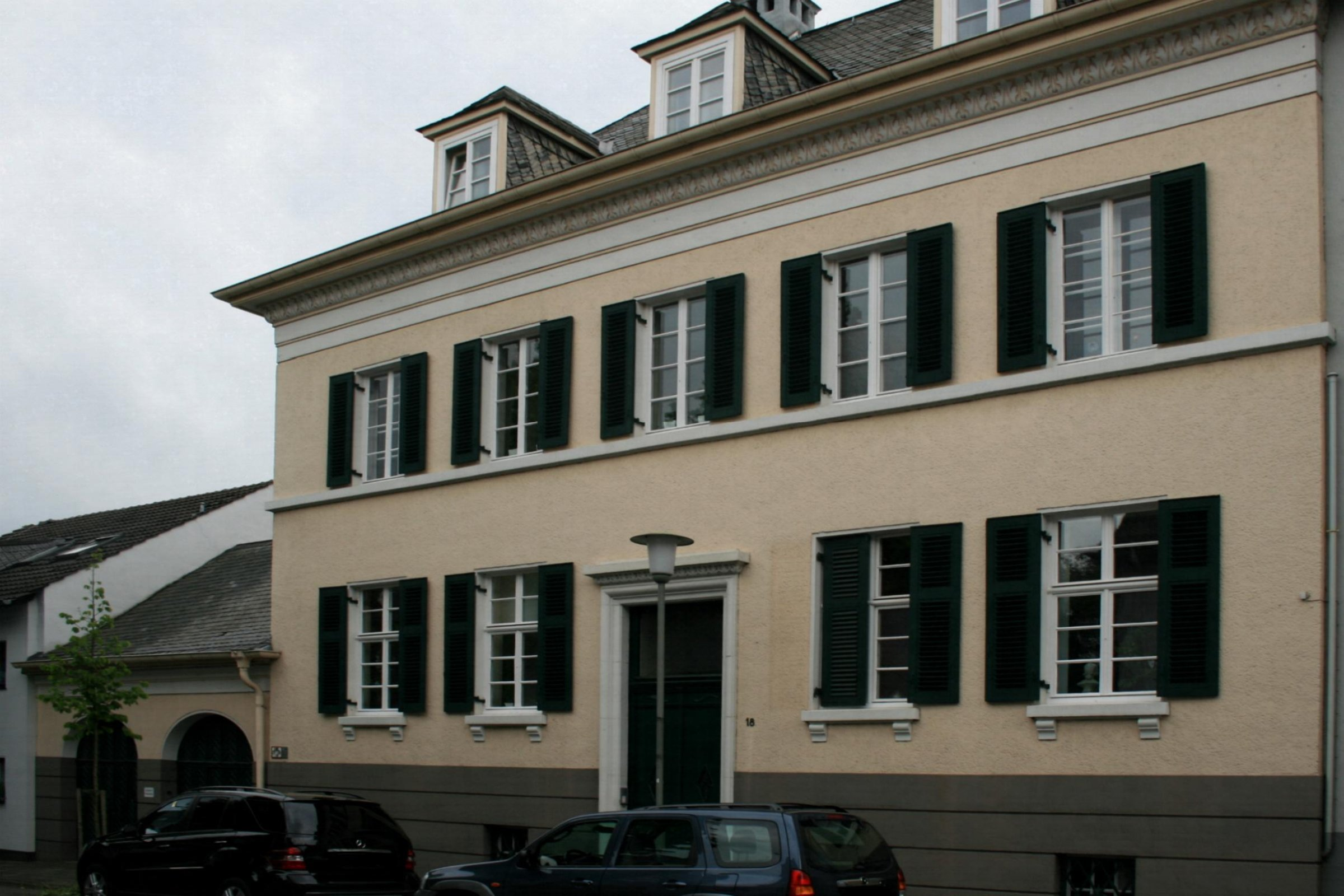 Cultural heritage monument No. B 019 in Mönchengladbach